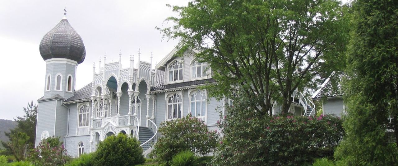 Ole Bulls villa on Lysøen.